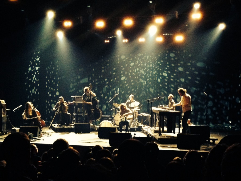 Esmerine